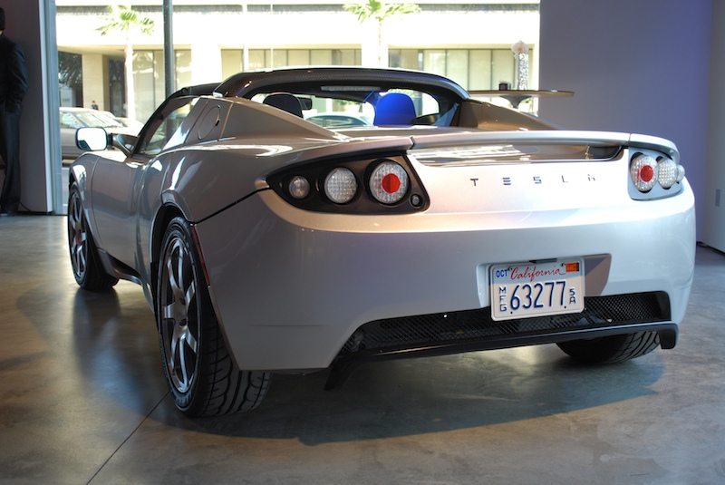 Tesla Roadster electric car, Los Angeles, Calif